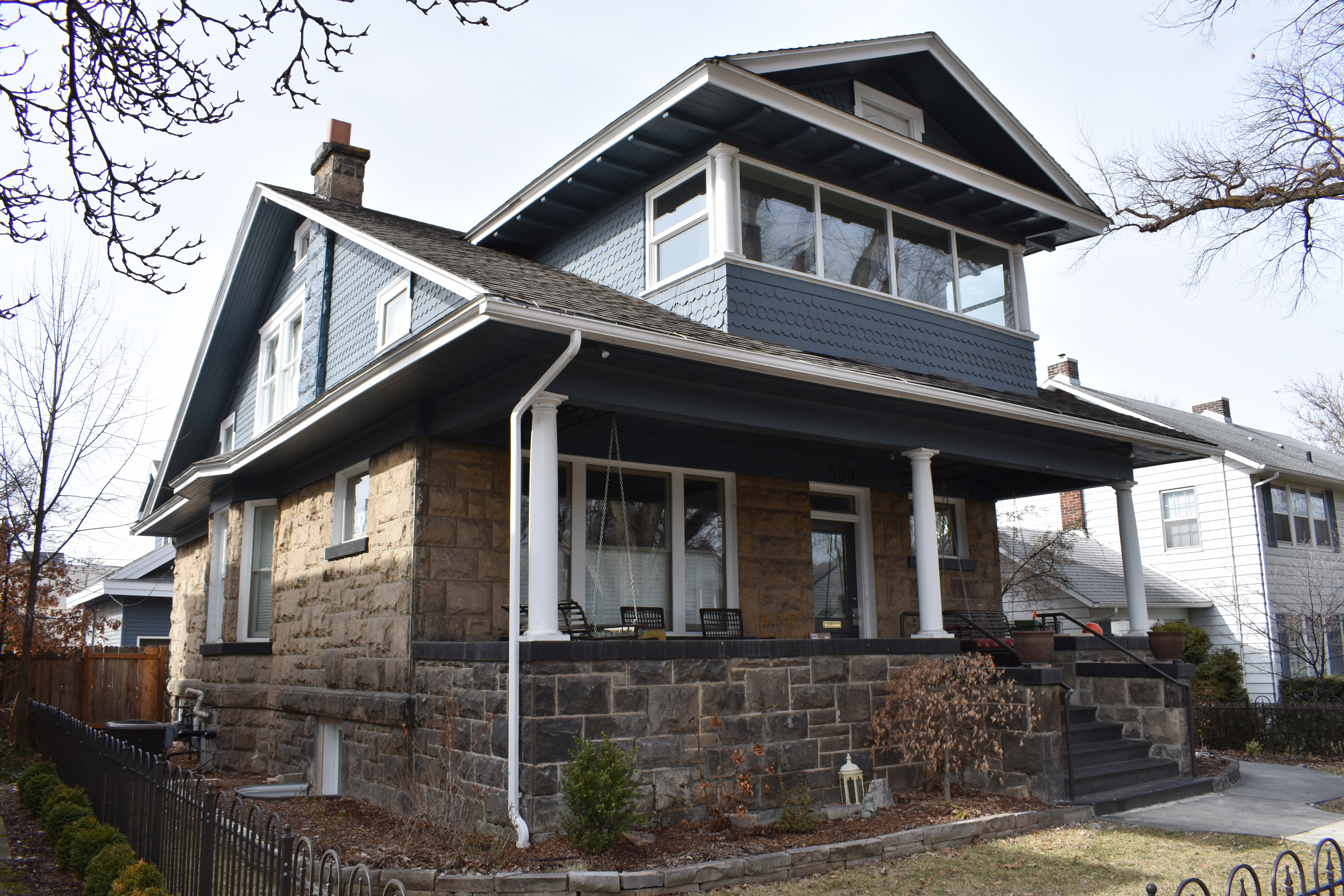 The Fred Hottes House in Boise, Idaho, was designed by Tourtellotte & Co. and is listed on the National Register of Historic Places. The house also is part of the Fort Street Historic District.